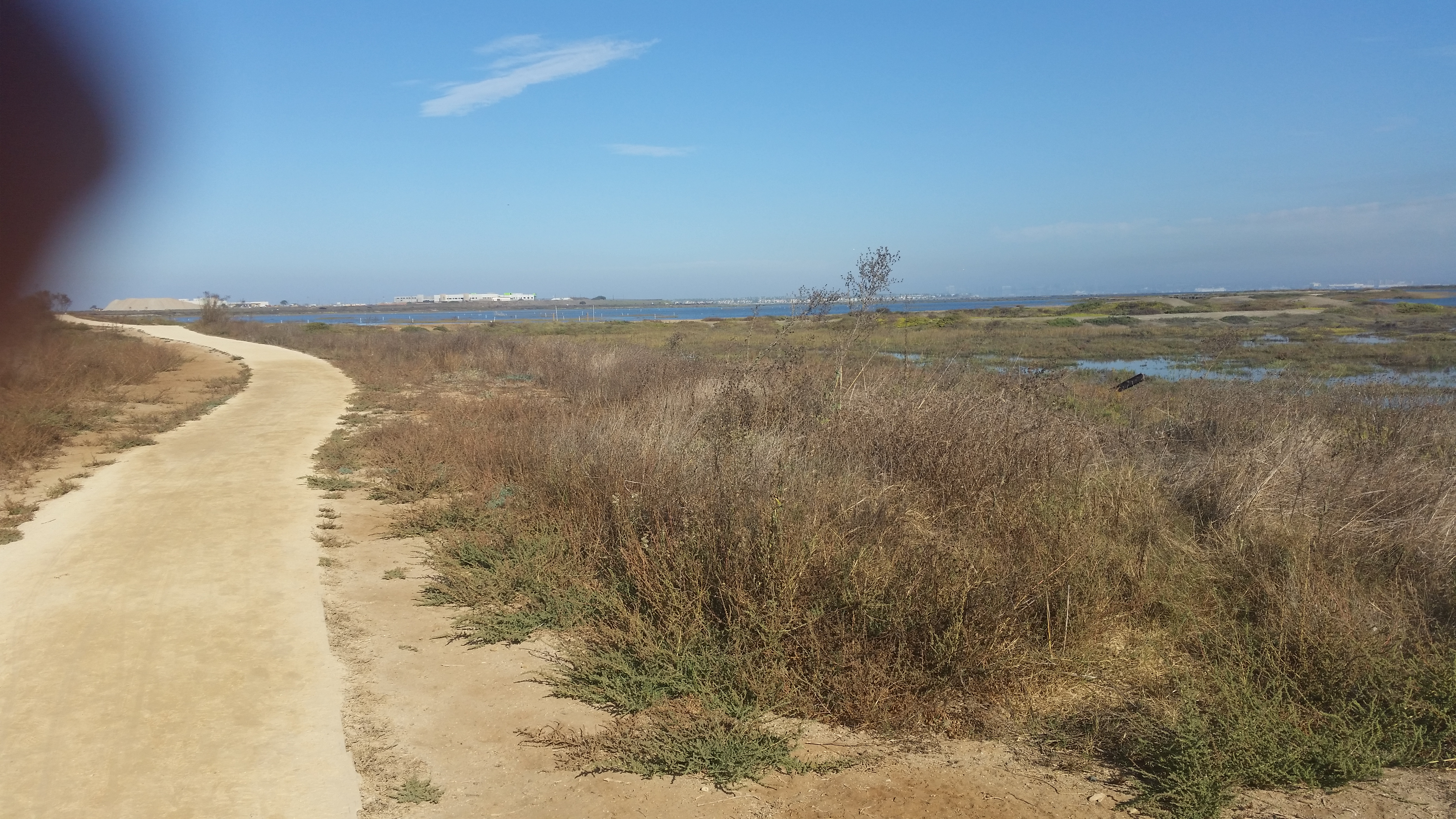 Sticking out of the marsh is a rail that once made up the Coronado Beltline Railroad, In the background is Silver Strand Training Complex, and off in the distance is the downtown San Diego Skyline.